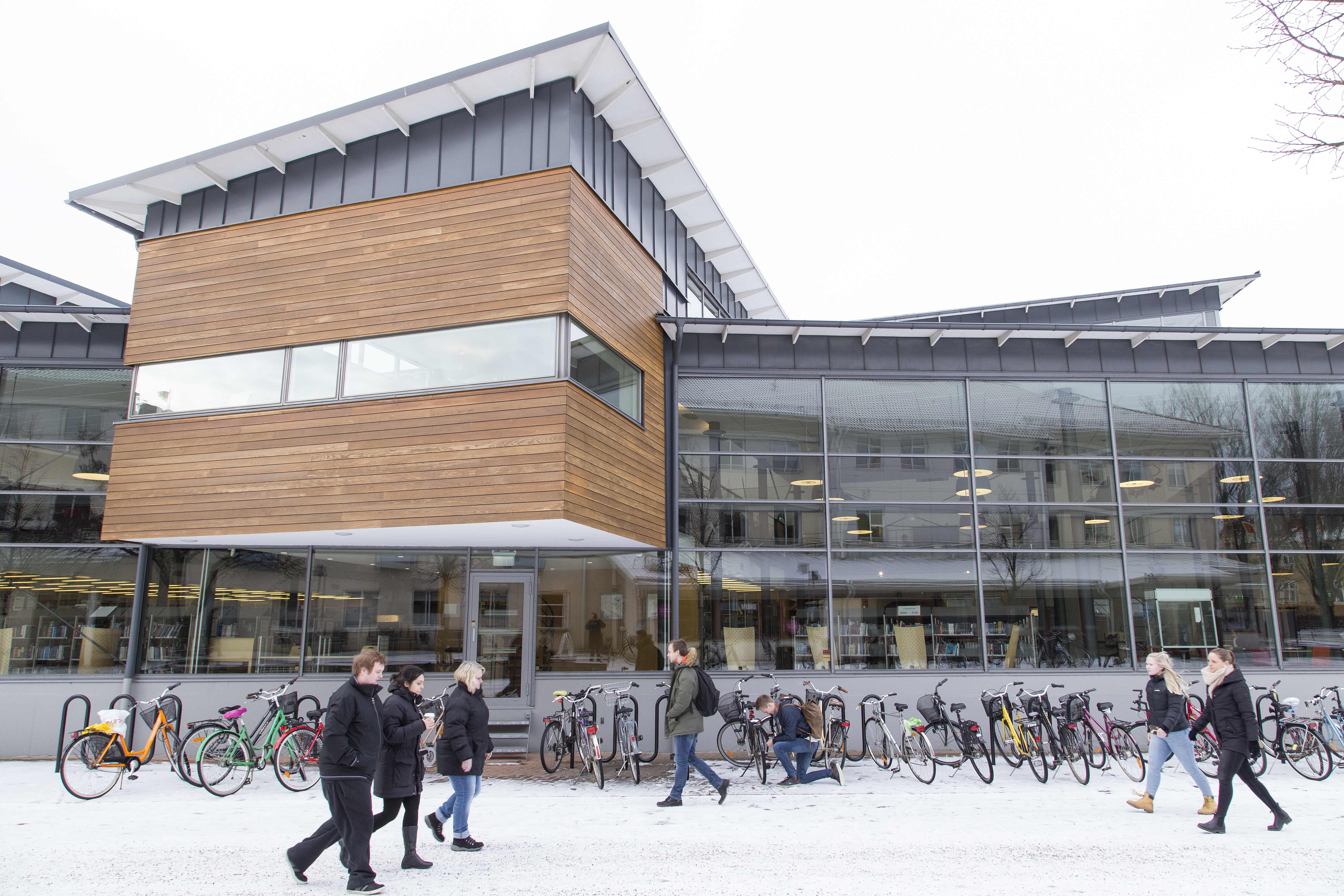 Linnaeus University Library, Kalmar, Sweden